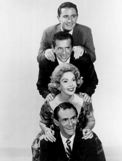 Photo from the television game show Keep Talking. Merv Griffin hosted the show after it moved to ABC from CBS, The show had celebrity guest panelists. Pictured from top are: Merv Griffin, Morey Amsterdam, Audrey Meadows and Danny Dayton.